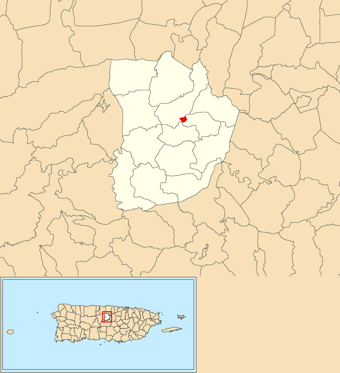 Morovis barrio-pueblo, Morovis, Puerto Rico locator map